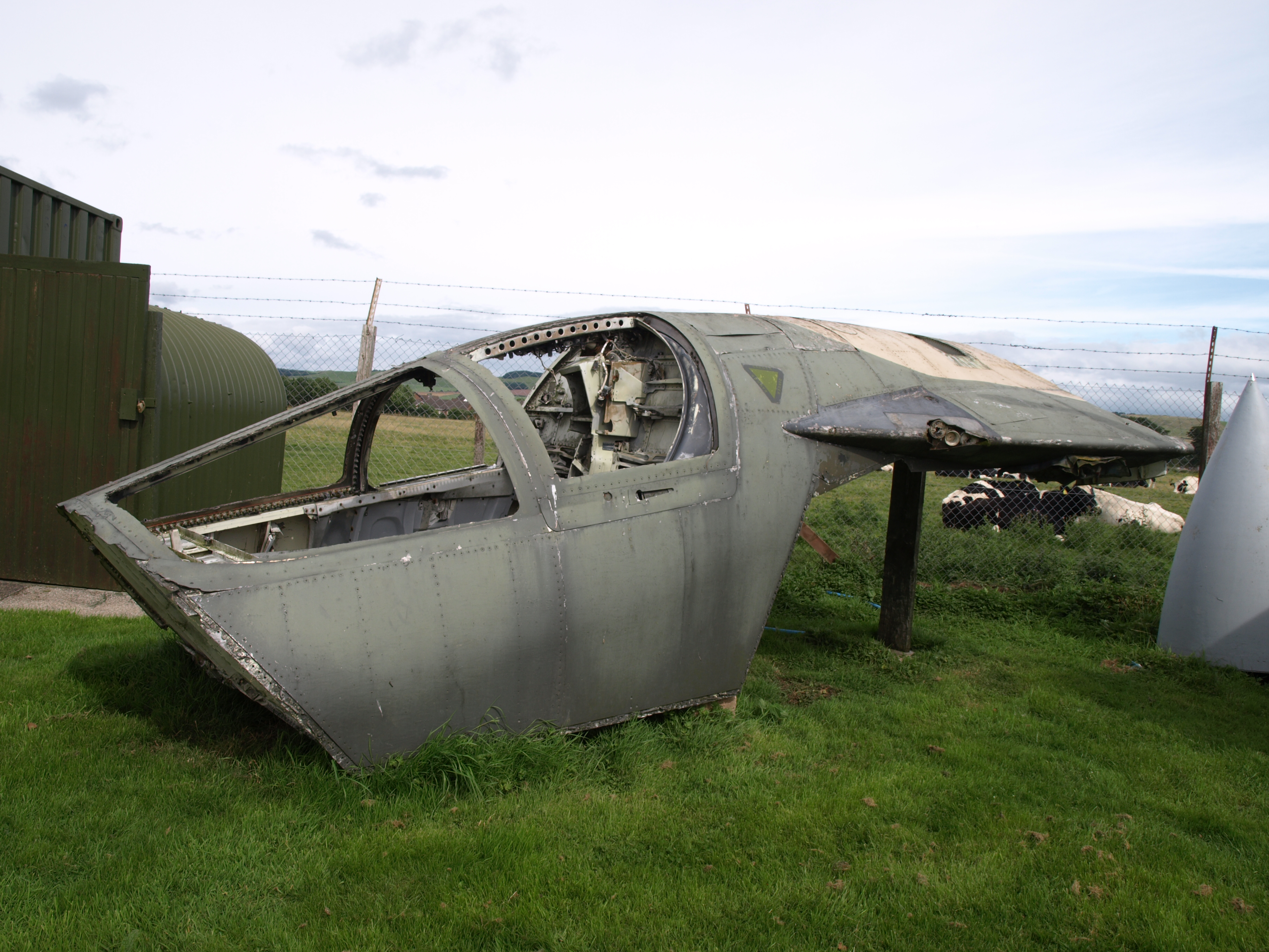 General Dynamics F-111E escape pod from 68-060, 20th TFW, lost 5 November 1975 after a bird strike, coming down into The Wash, 9 km E of Boston (Linc), UK. Crew survived. Dumfries and Galloway Aviation Museum.